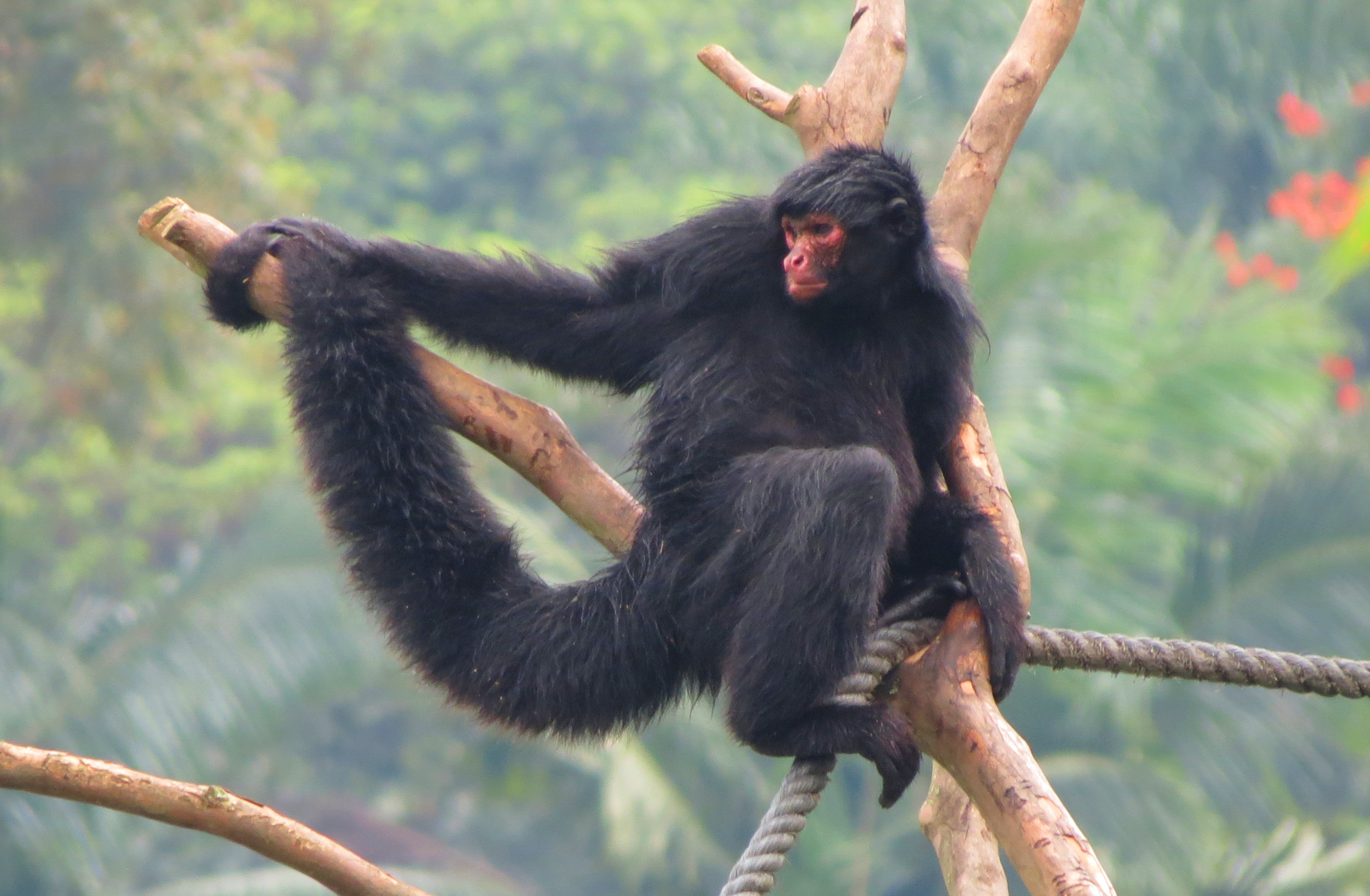 Spider monkey (Ateles paniscus") in São Paulo Zoo.